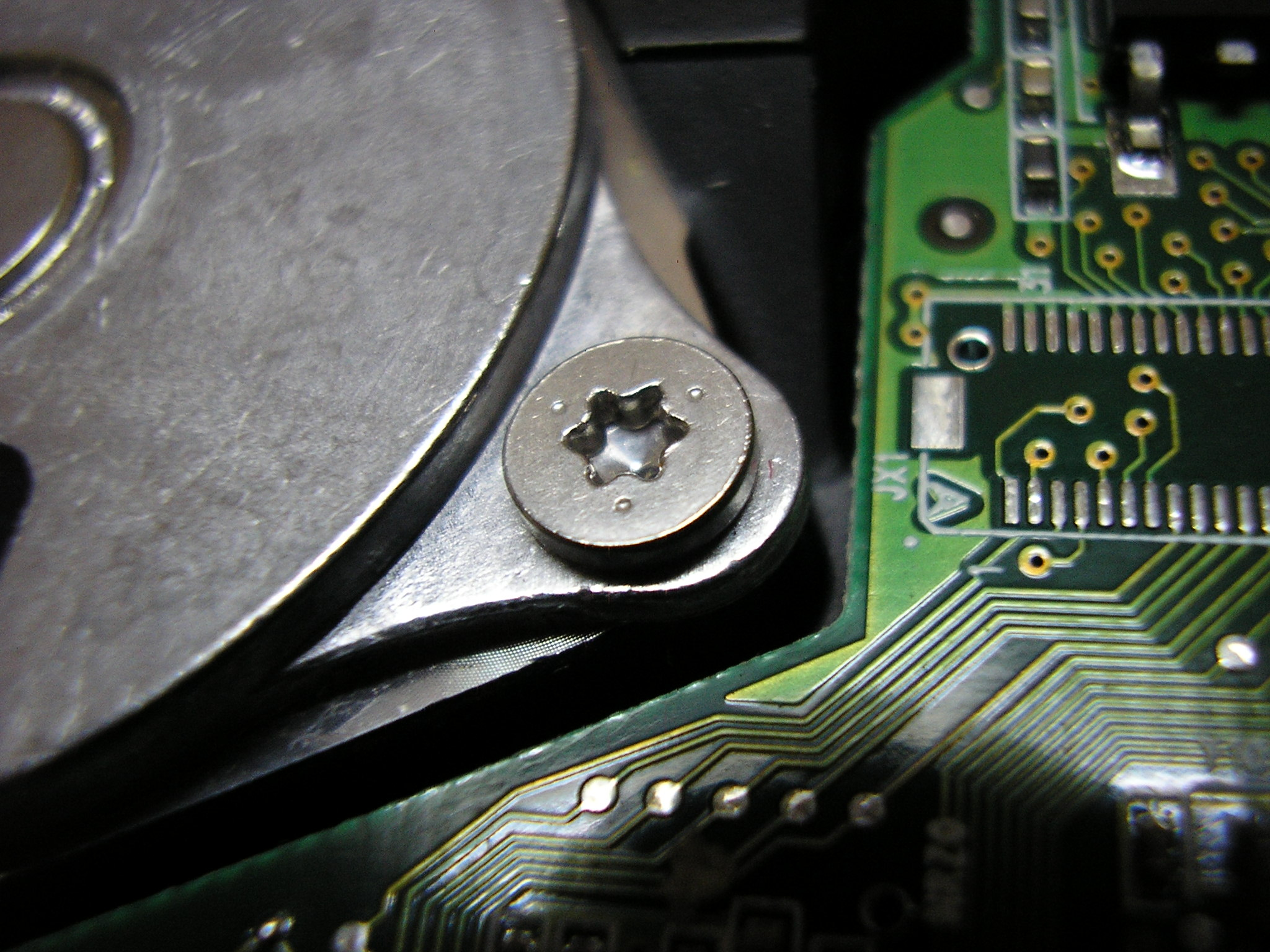 A T-8 Torx screw on a computer hard drive.